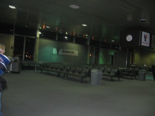 Terminal B at Bradley Airport in 2006 before renovations